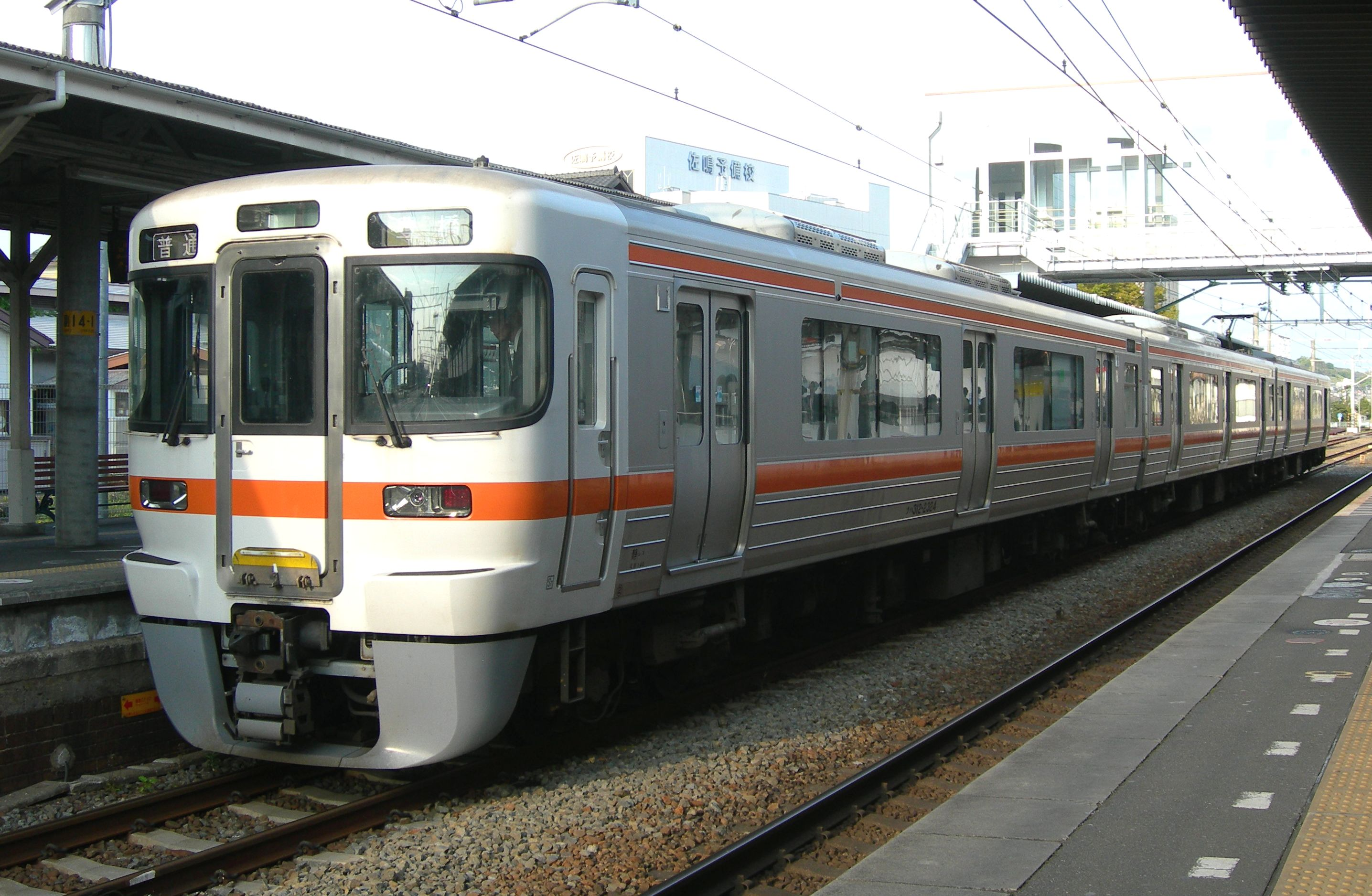 JR Central 313-2300 series 3-car EMU set T15 at Kakegawa Station